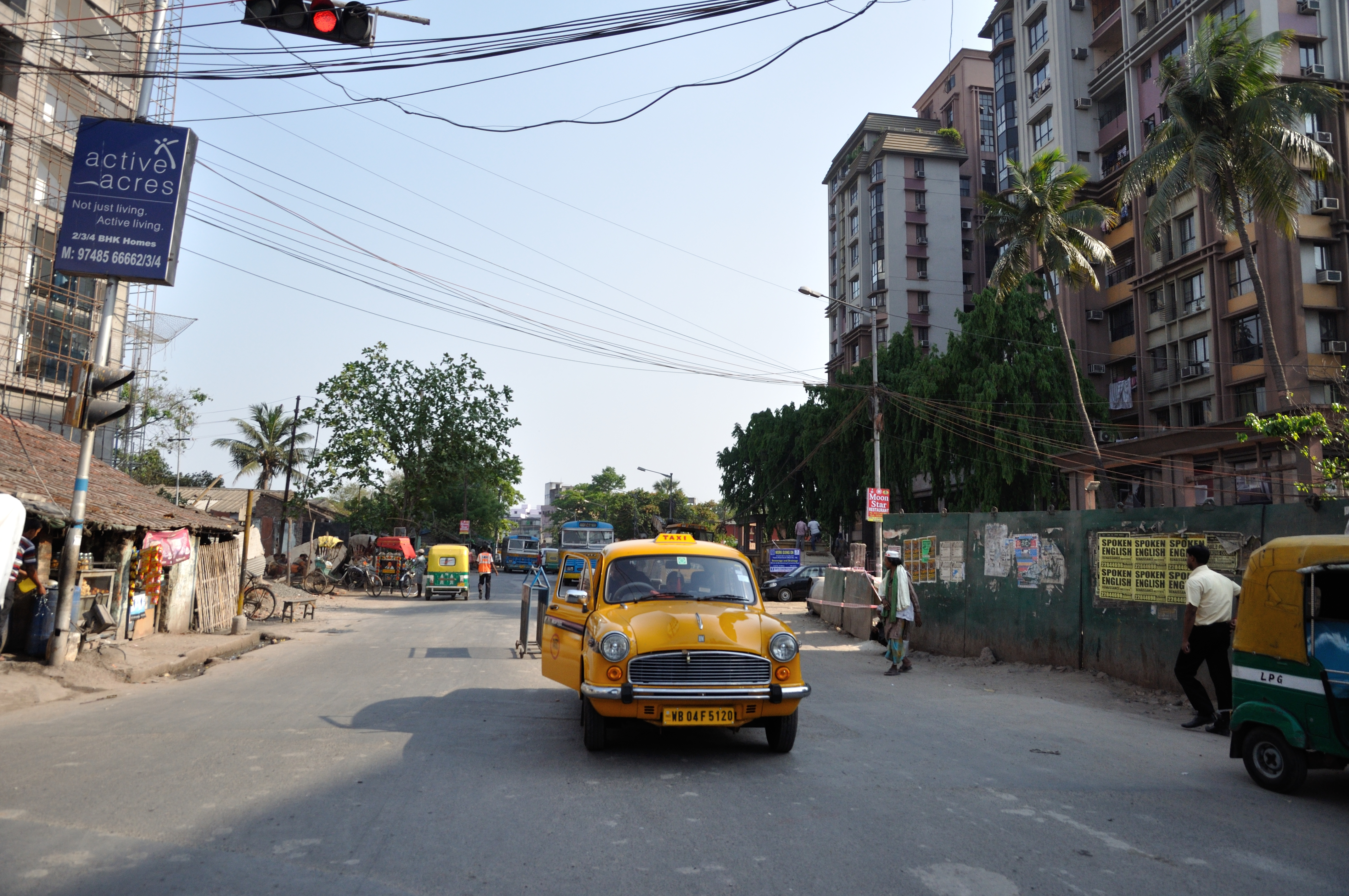 Photographed in greater Kolkata.